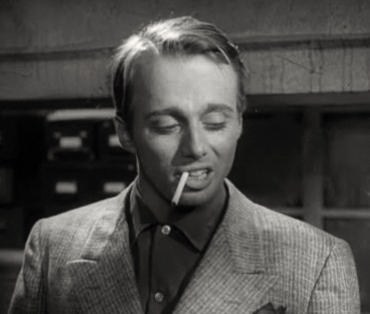 John Davis Chandler in Mad Dog Coll - trailer (cropped screenshot)